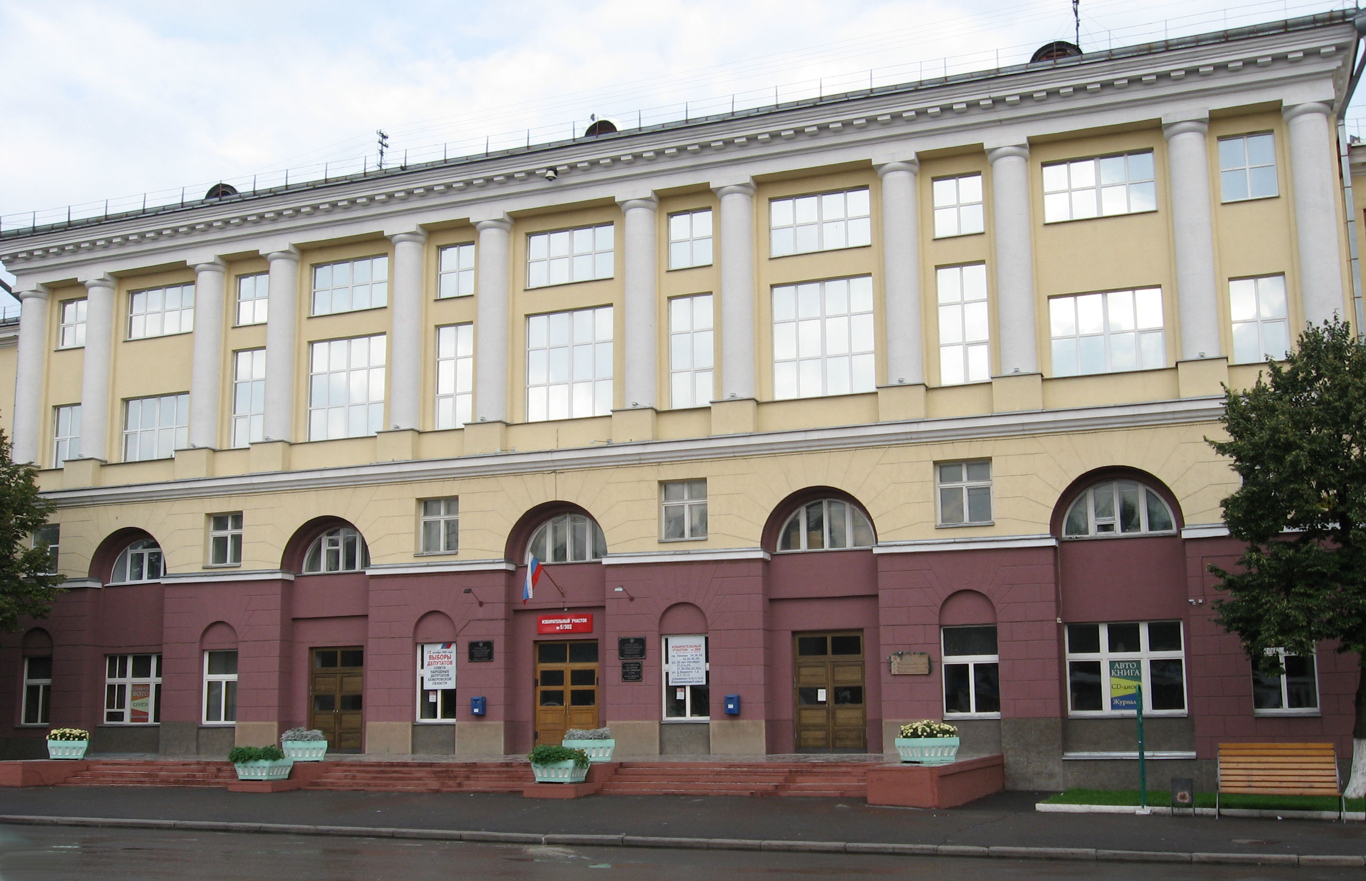 Kuzbass State Technical University, the main building.